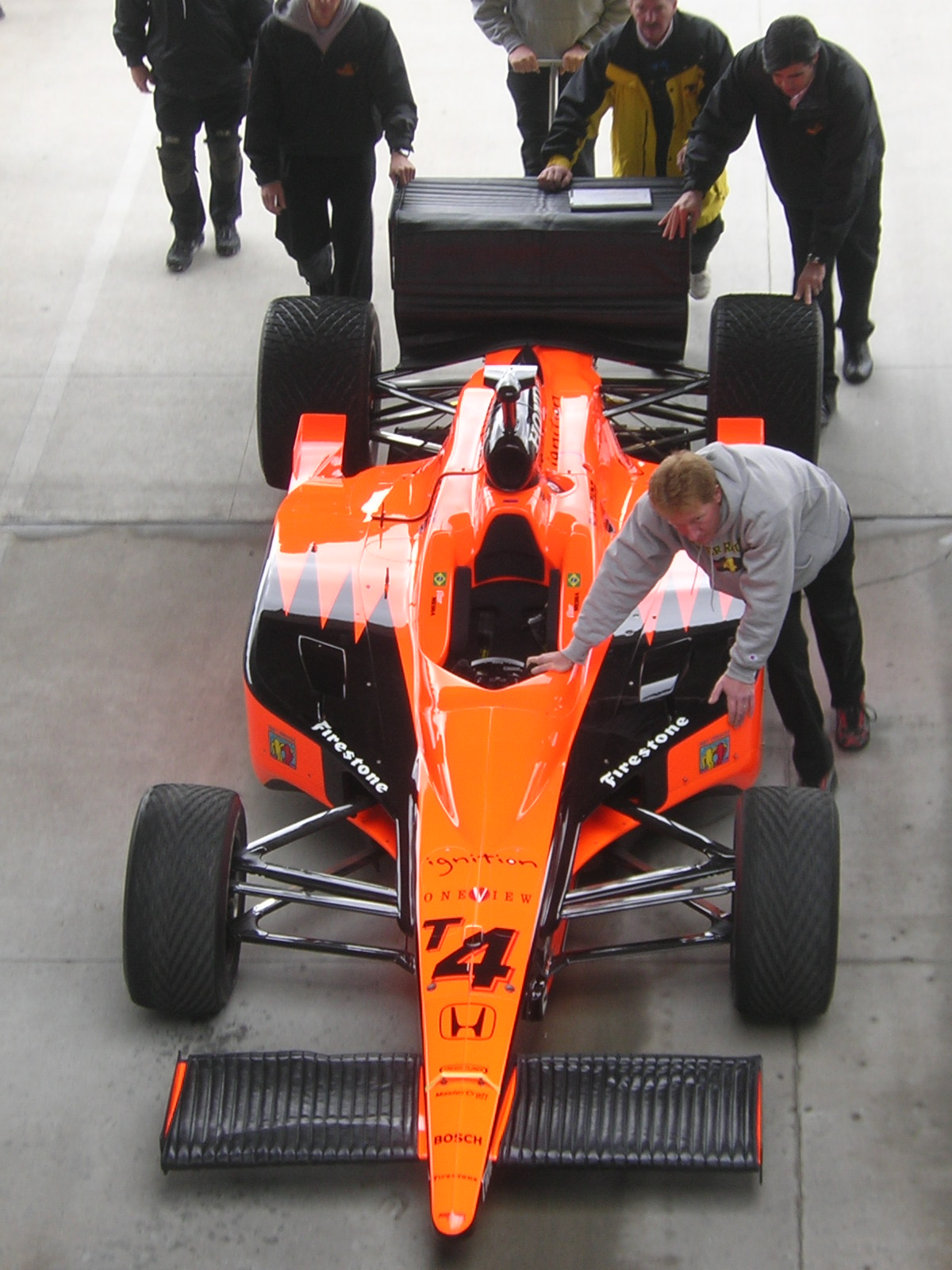 Panther Racing's 2006 car driven by Vitor Meira